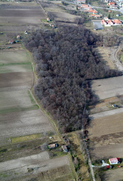 Vereb, Hungary, aerial photography, castle